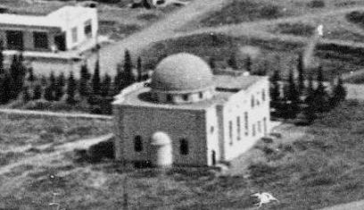 AN AERIAL PHOTO OF THE SETTLEMENT AFULA. צילום אויר של היישוב עפולה. On the bottom left is the great synagogue of Afula. Beyond it is the wter tower of Afula, now on Rabbi Levin street 10, Afula. The straight road coming out of Afula is the B60 road to Nazereth. Far away are the mountains of Nazereth. To the right of the road is Balfouria and farther away is Tel Adashim. Kfar Gideon is also seen on both sides of B60.